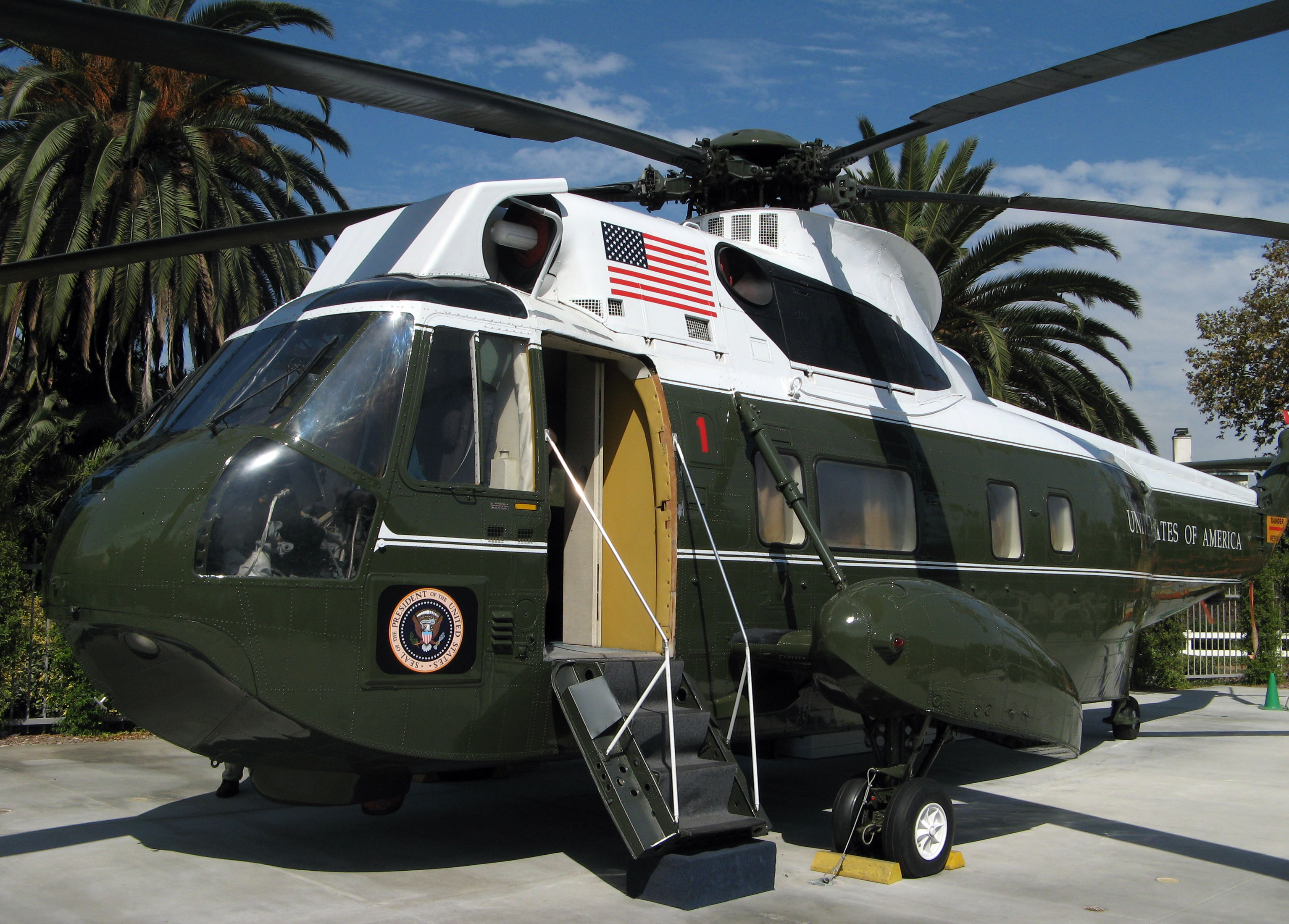 The President's VH-3A "Sea King" helicopter tail number 150617 in the picture is on permanent display at Nixon Library, it was in the Presidential fleet from 1961 to 1976 transporting Presidents Kennedy, Johnson, Nixon, and Ford and many foreign heads of state and government including President Nixon and his final flight from the White House to Andrews Air Force Base on August 9, 1974. Photographed and uploaded by user:Geographer